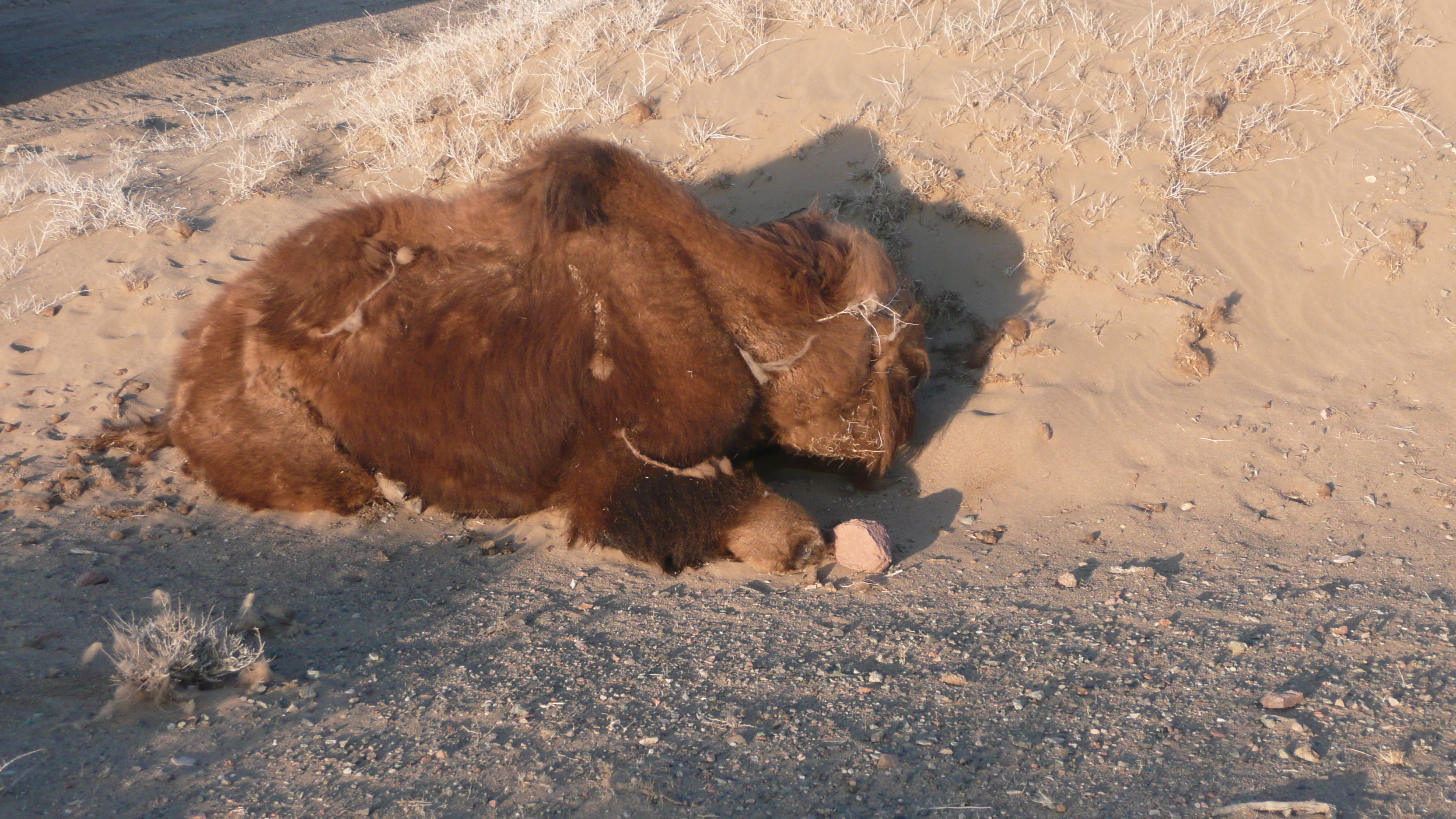 Zud winter 2010 in South Gobi - Dead camel